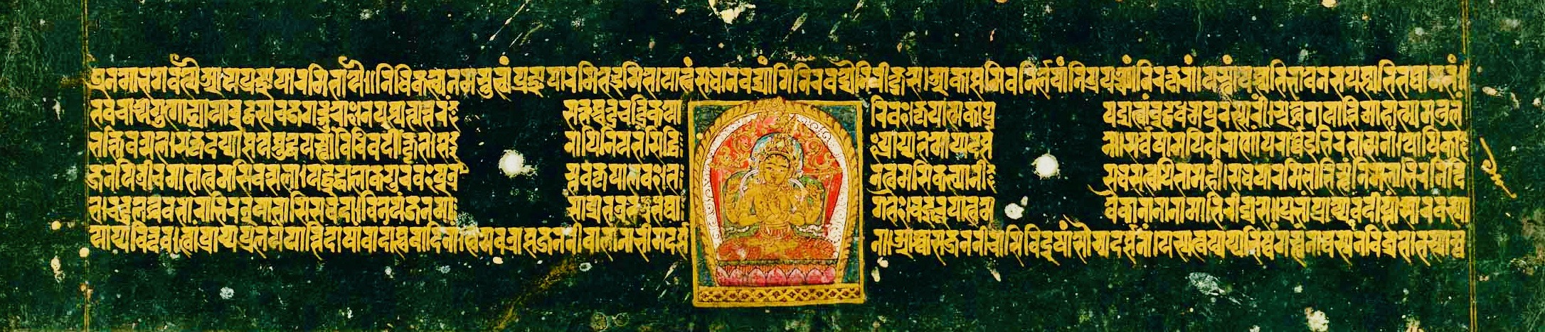 A Buddhist text dated to 1511 CE, Astasāhasrikāprajñāpāramitā. The characters are written in gold ink, includes Buddhist deities and scenes from the life of the Buddha. The language is Sanskrit, the script is Nepalāksara, the manuscript was purchased in the 19th-century from Nepal. The photo above is of a 2D artwork of a text that is over 200 years old, from a manuscript that was produced before the 19th-century. Therefore Wikimedia Commons PD-Art licensing guidelines apply. Any rights I have as a photographer is herewith donated to wikimedia commons under CC 4.0 license.